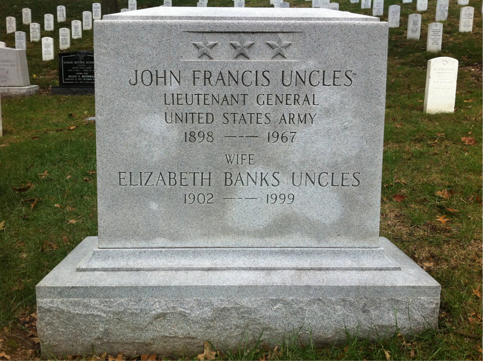 Grave of John Francis Uncles at Arlington National Cemetery